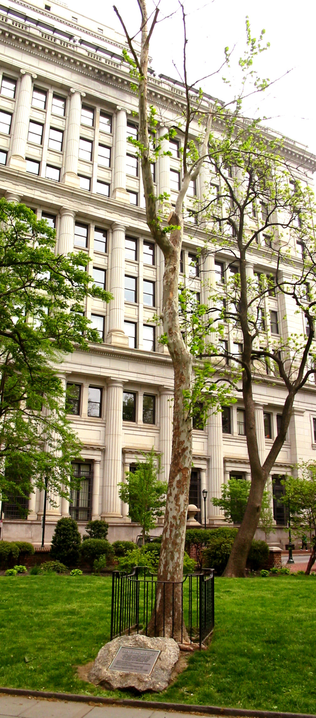 View of Bicentennial Moon Tree, located in the Northeast corner of Washington Square, Philadelphia, PA. It was grown from a seed flown to the moon on Apollo 14 in 1971.